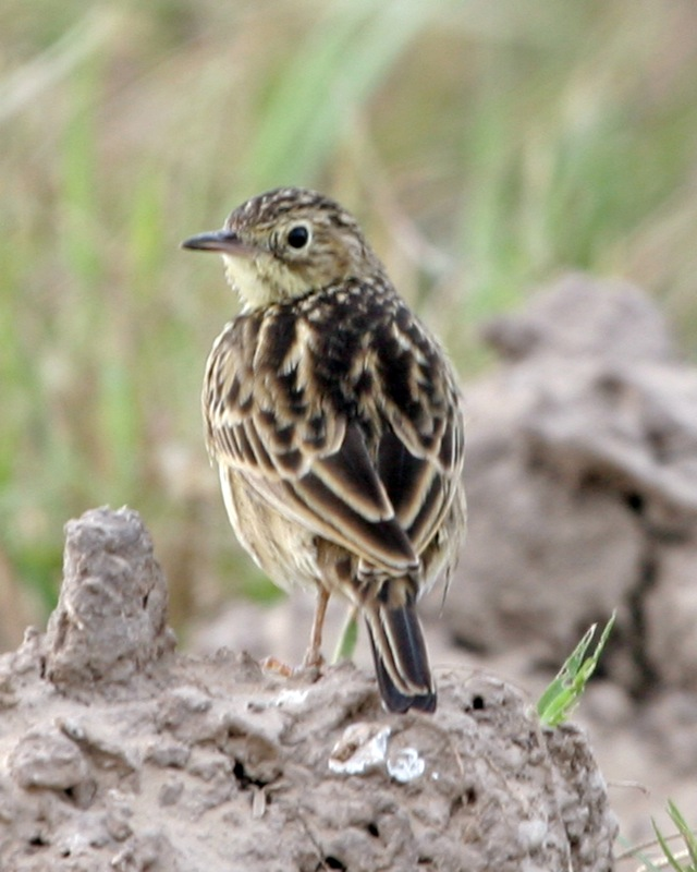 Yellowish Pipit (Anthus lutescens) at Entre Rios, Argentina. Spanish (Argentine): Cachirla chica Portuguese (Brazil): calhandra, Caminheiro-zumbidor, codorninha-do-campo, foguetinho, martelinha, peruinha , peruinho, peruzinho, peruzinho-do-campo, sombrio